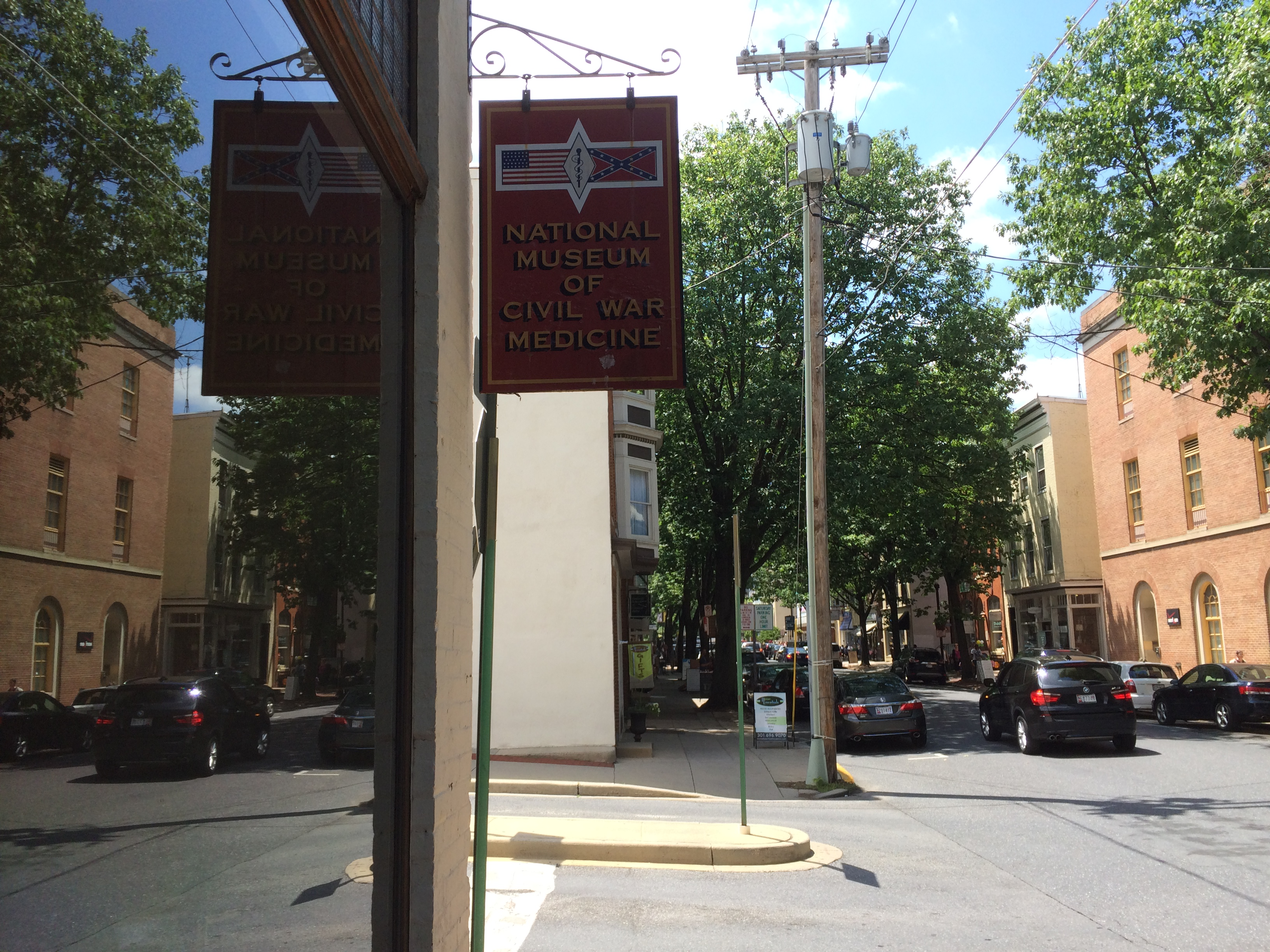 The sign by the entrance to the National Museum of Civil War Medicine in Frederick, Maryland